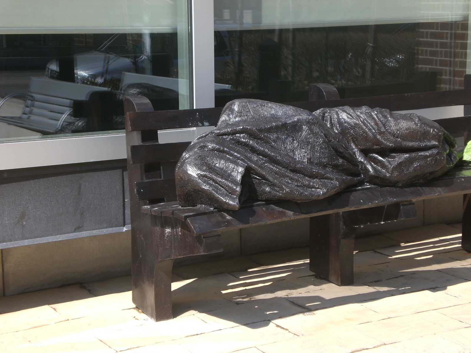 A photo of the Jesus the Homeless Statue by Timothy Schmalz outside